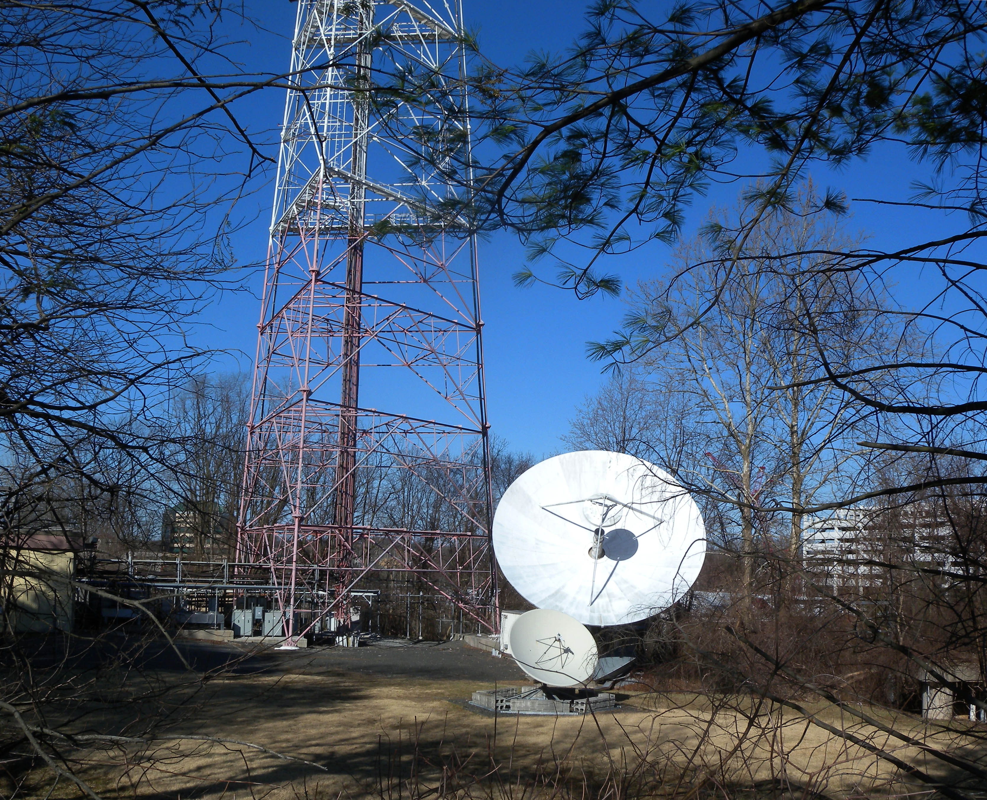 Looking northeast at WNJN-TV station on a sunny afternoon.